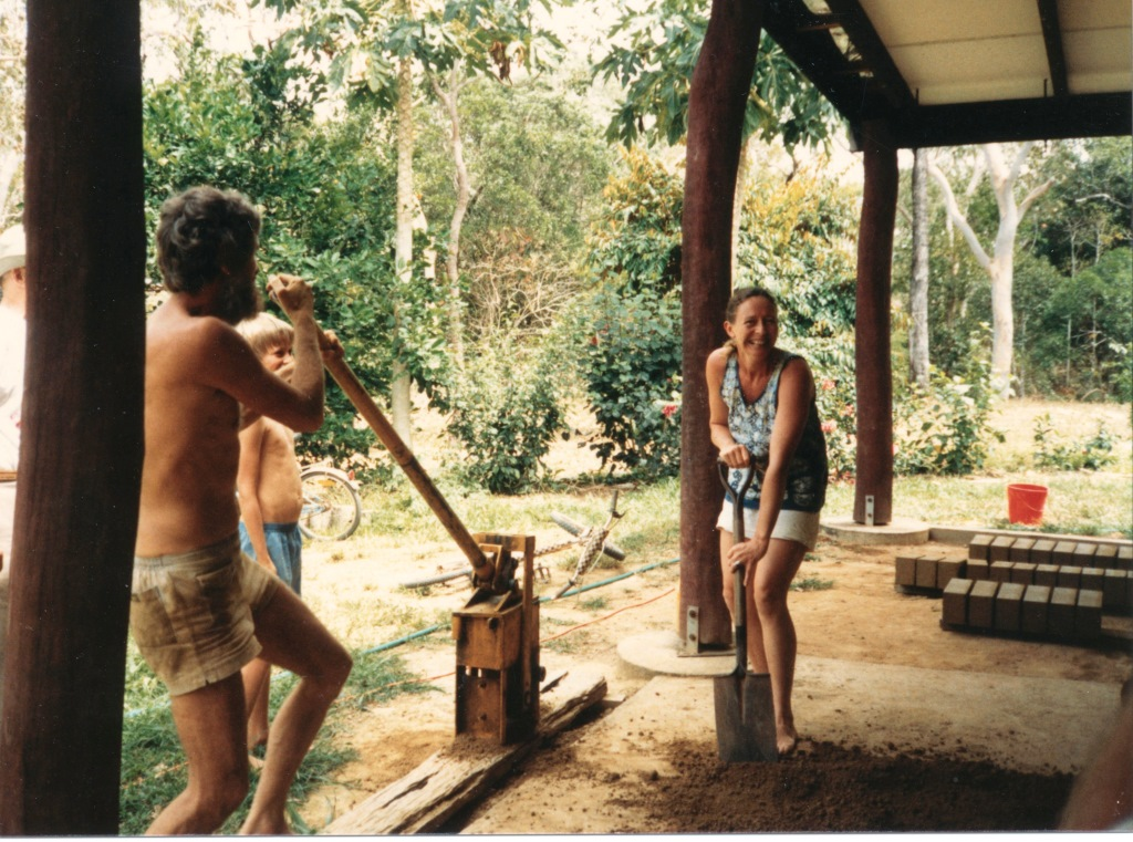 I took this photo at a neighbour's house in 1988